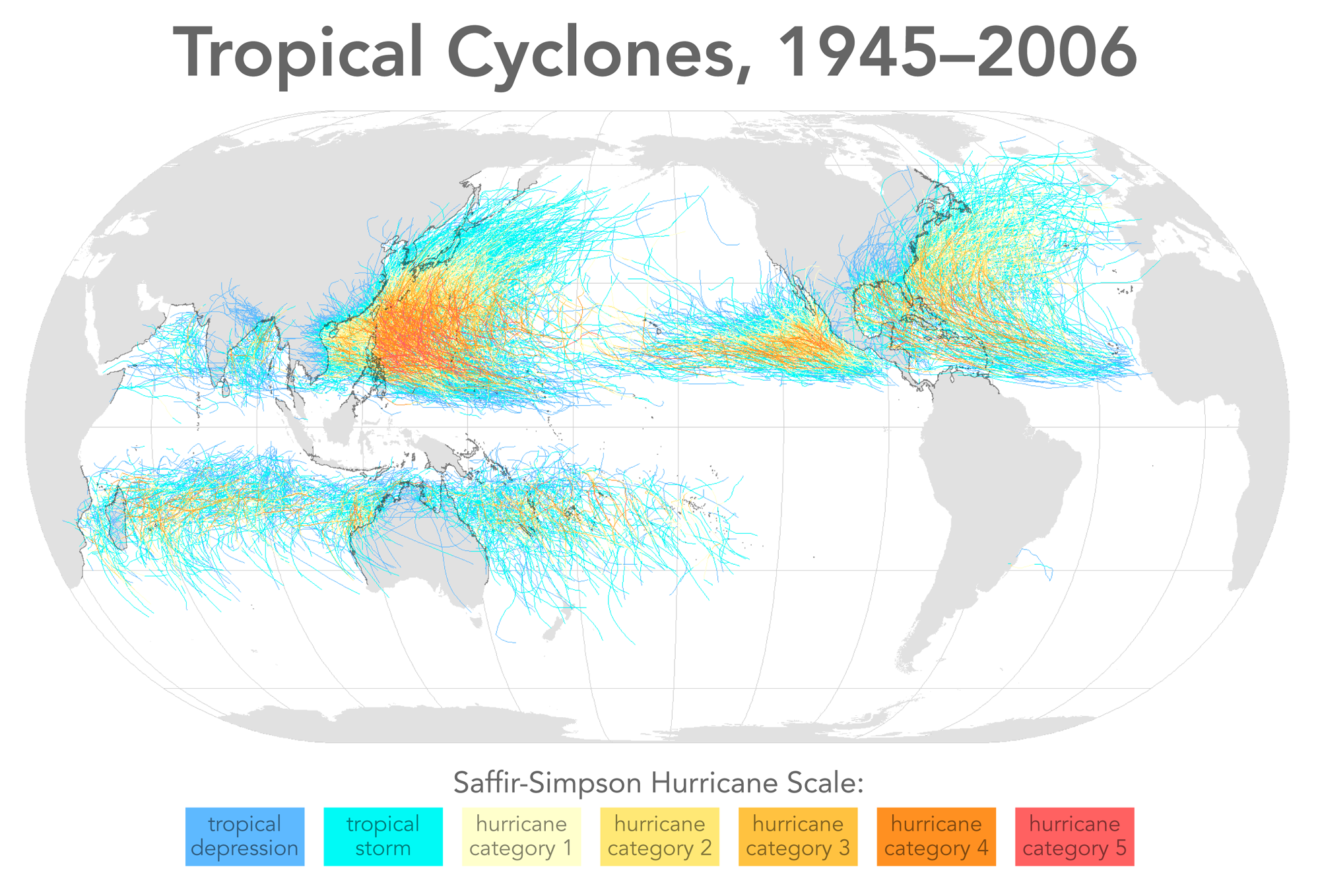 Tropical Cyclones, 1945–2006. Data from the Joint Typhoon Warning Center and the U.S. National Oceanographic and Atmospheric Administration. Colors based on Template talk:Storm colour.